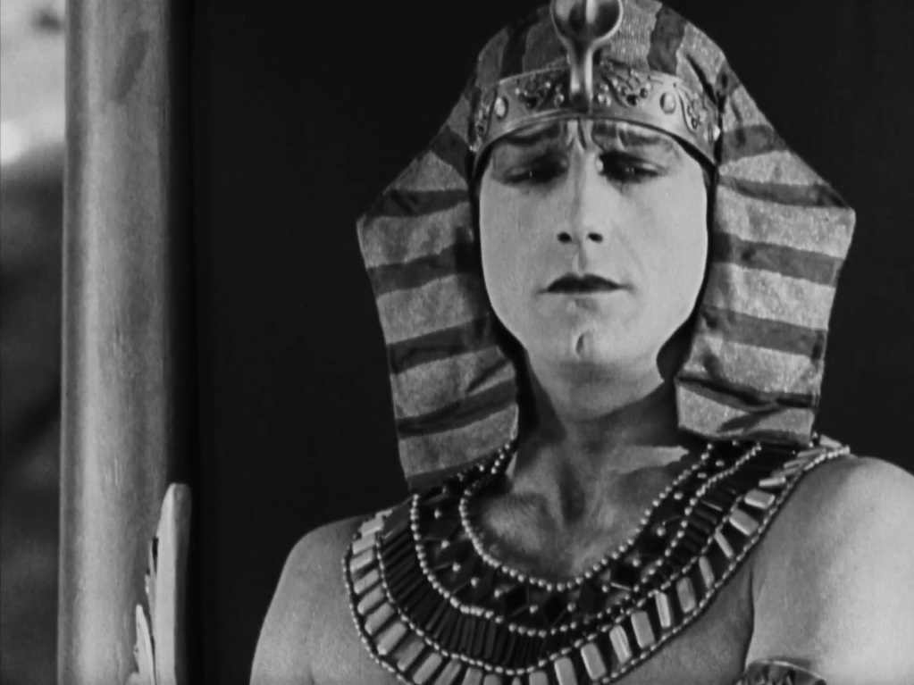 Screenshot from the silent film The Ten Commandments (1923).